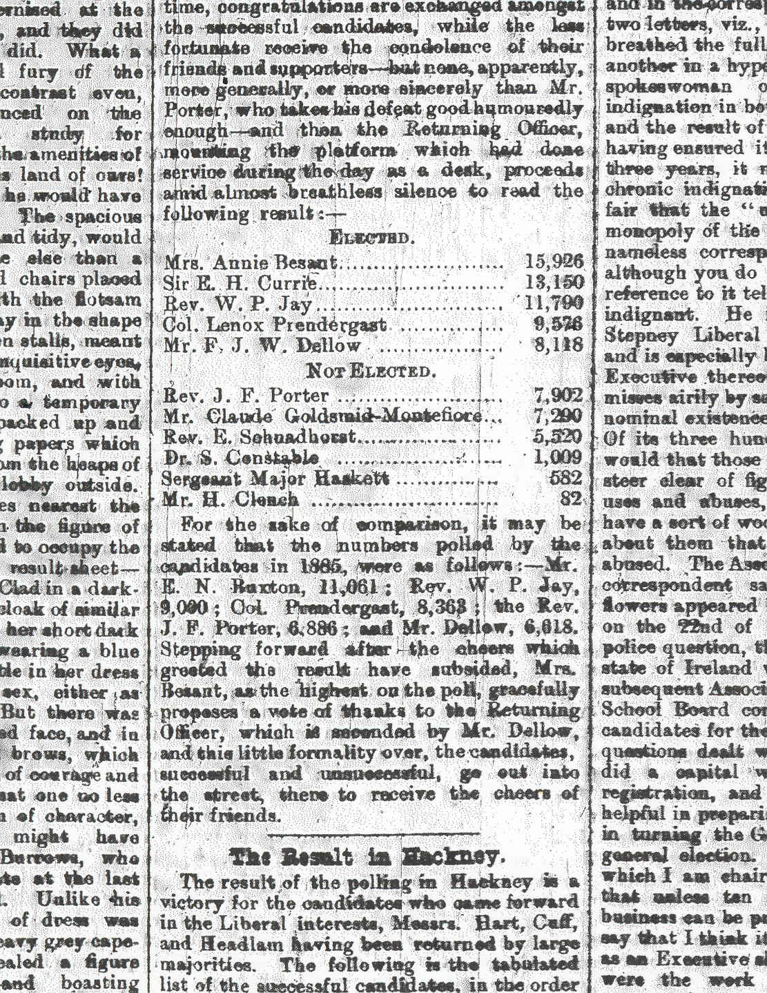 The election result to the School Board in Tower Hamlets in November 1888.